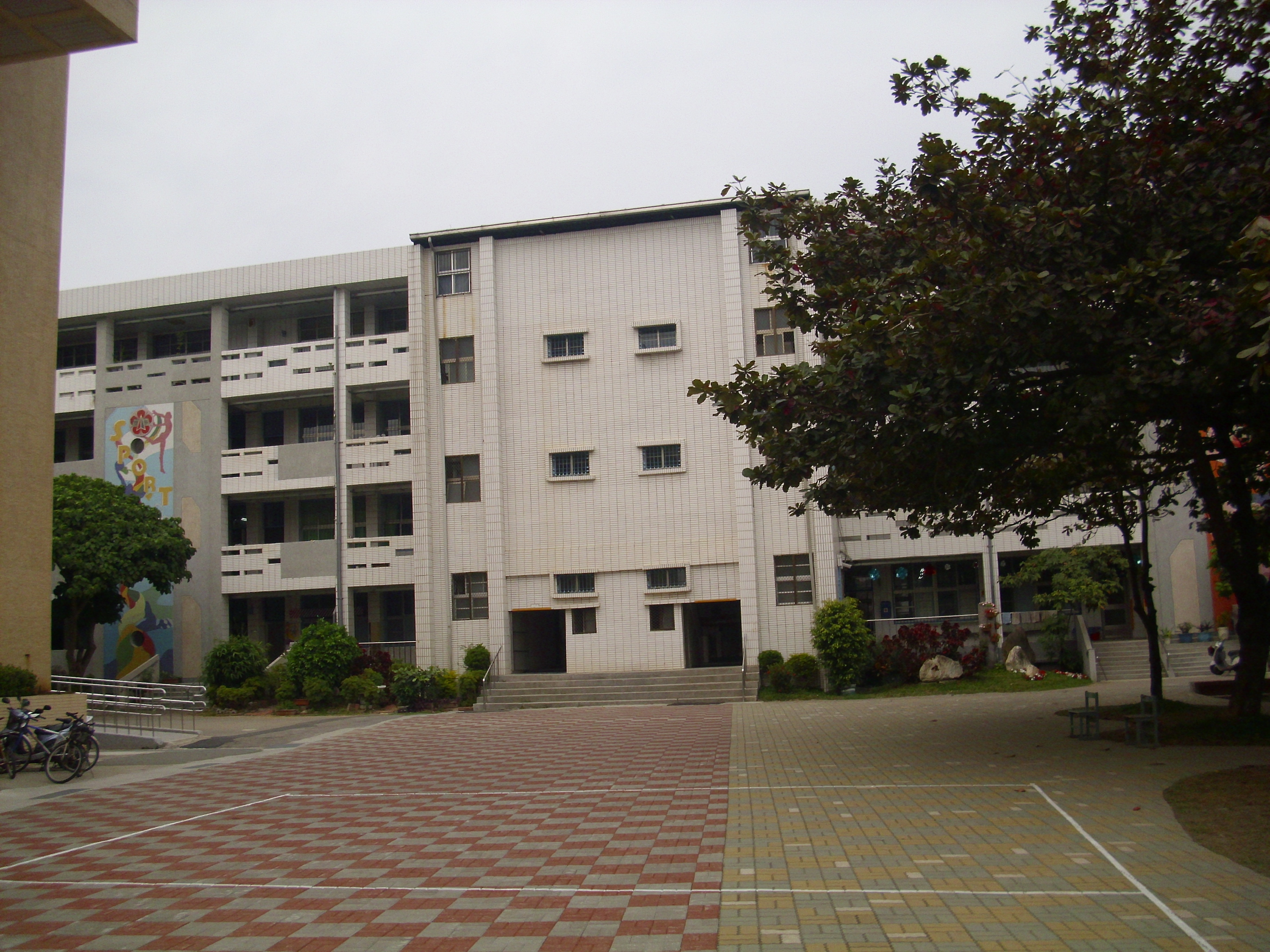 Yao-chun Building in Tainan Municipal junior High School中文（台灣）: 臺南市立復興國民中學樂群樓南側於2012/2/3